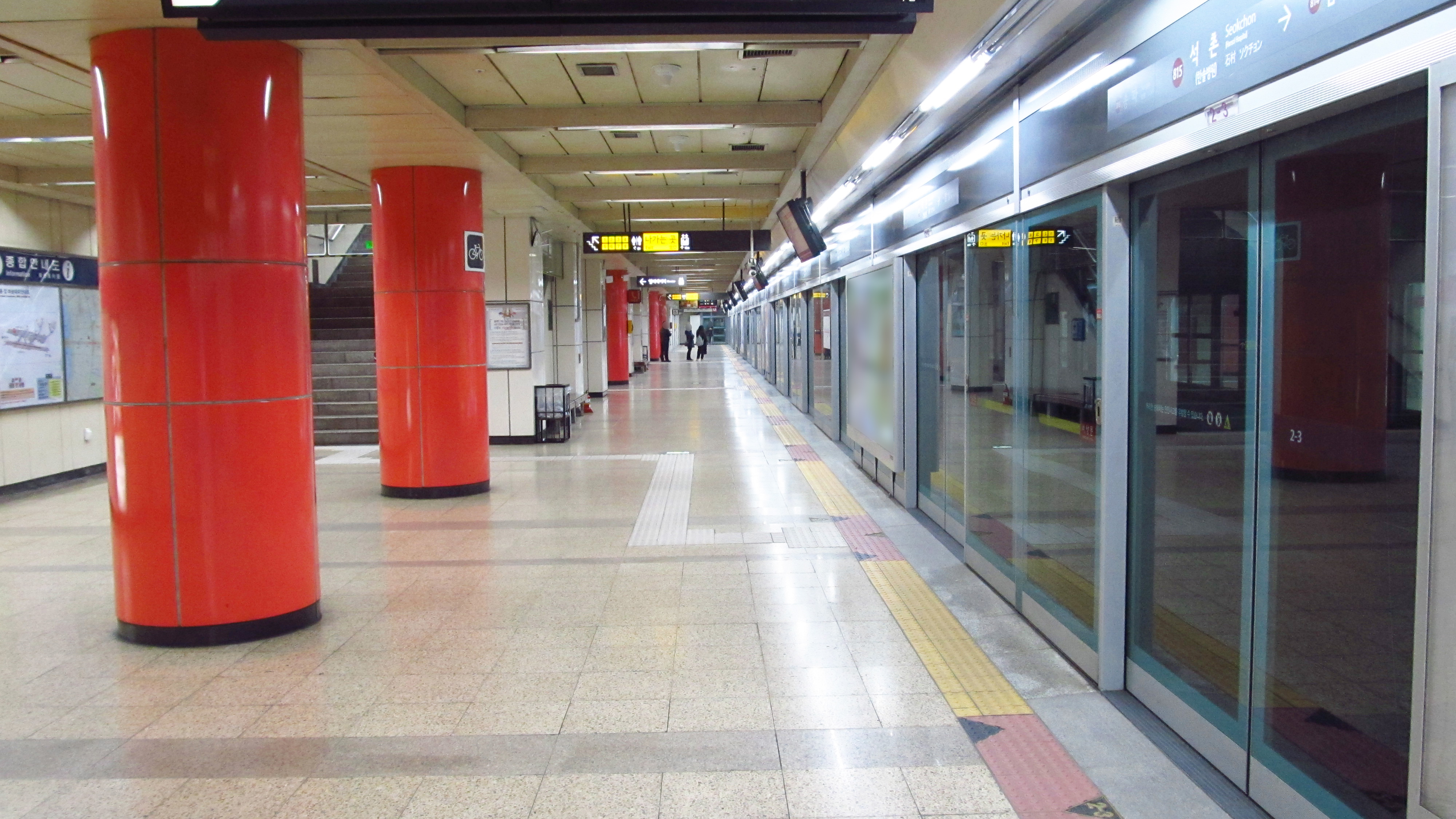 The platform at Seokchon Station on Seoul Subway Line 8 in Songpa-gu, Seoul, Republic of Korea(South Korea)